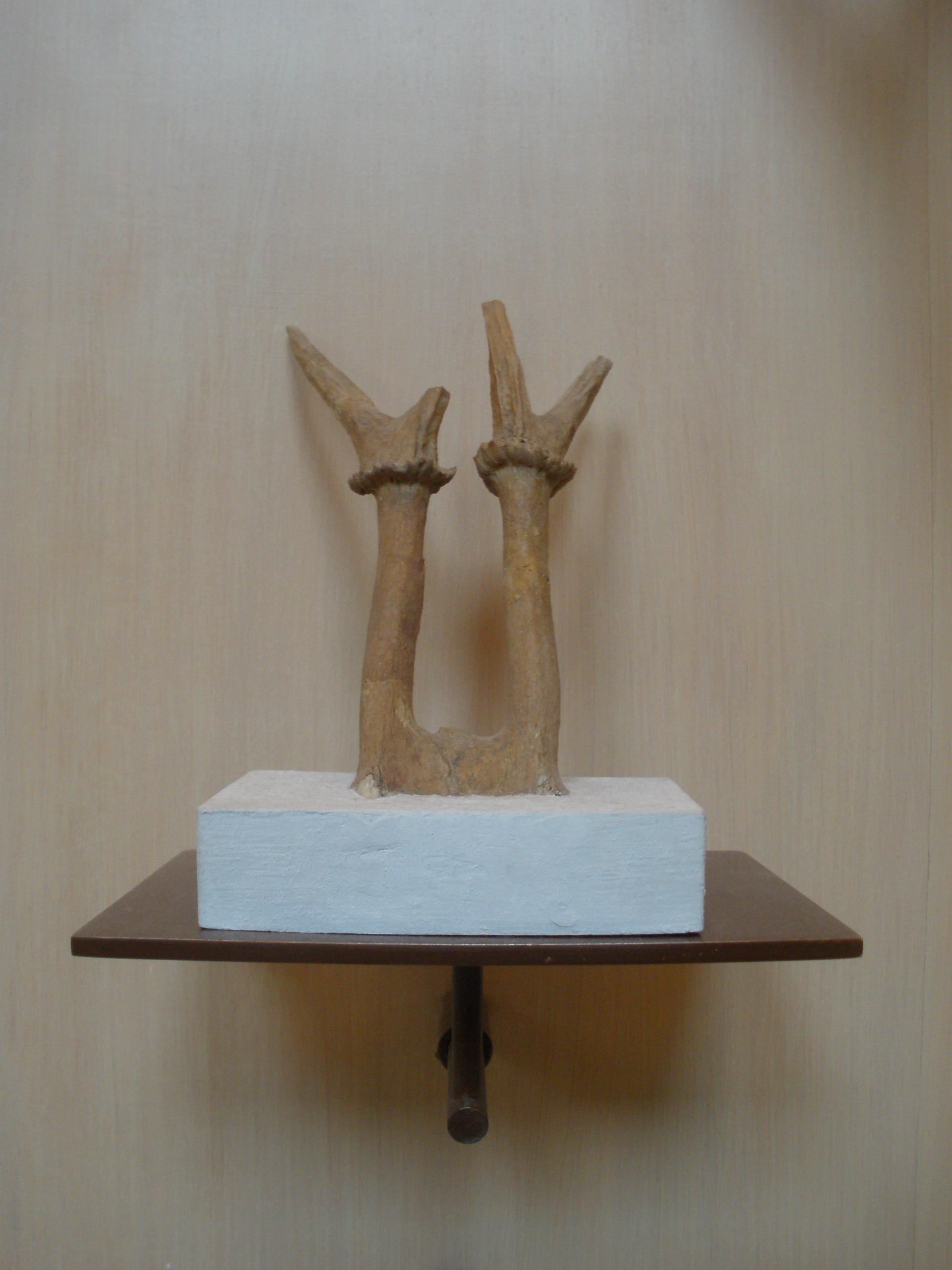 Antlers of Dicrocerus furcatus, a fossil deer in the "American Museum of Natural History" in New York